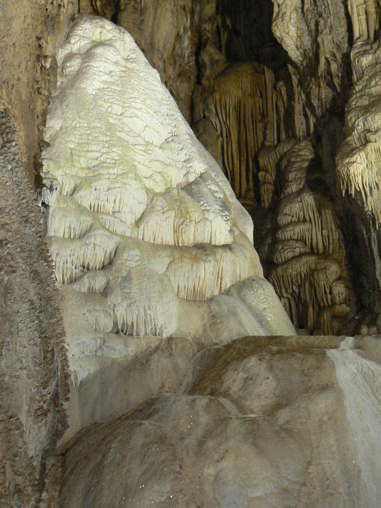 The icefall in Uhlovitza Cave, Bulgaria